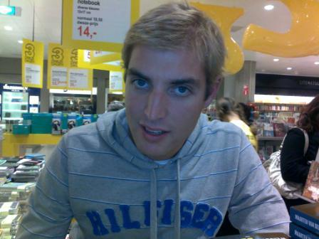 Maarten van der Weijden, gold-medalist at 2008 Summer Olympics 10k swimming